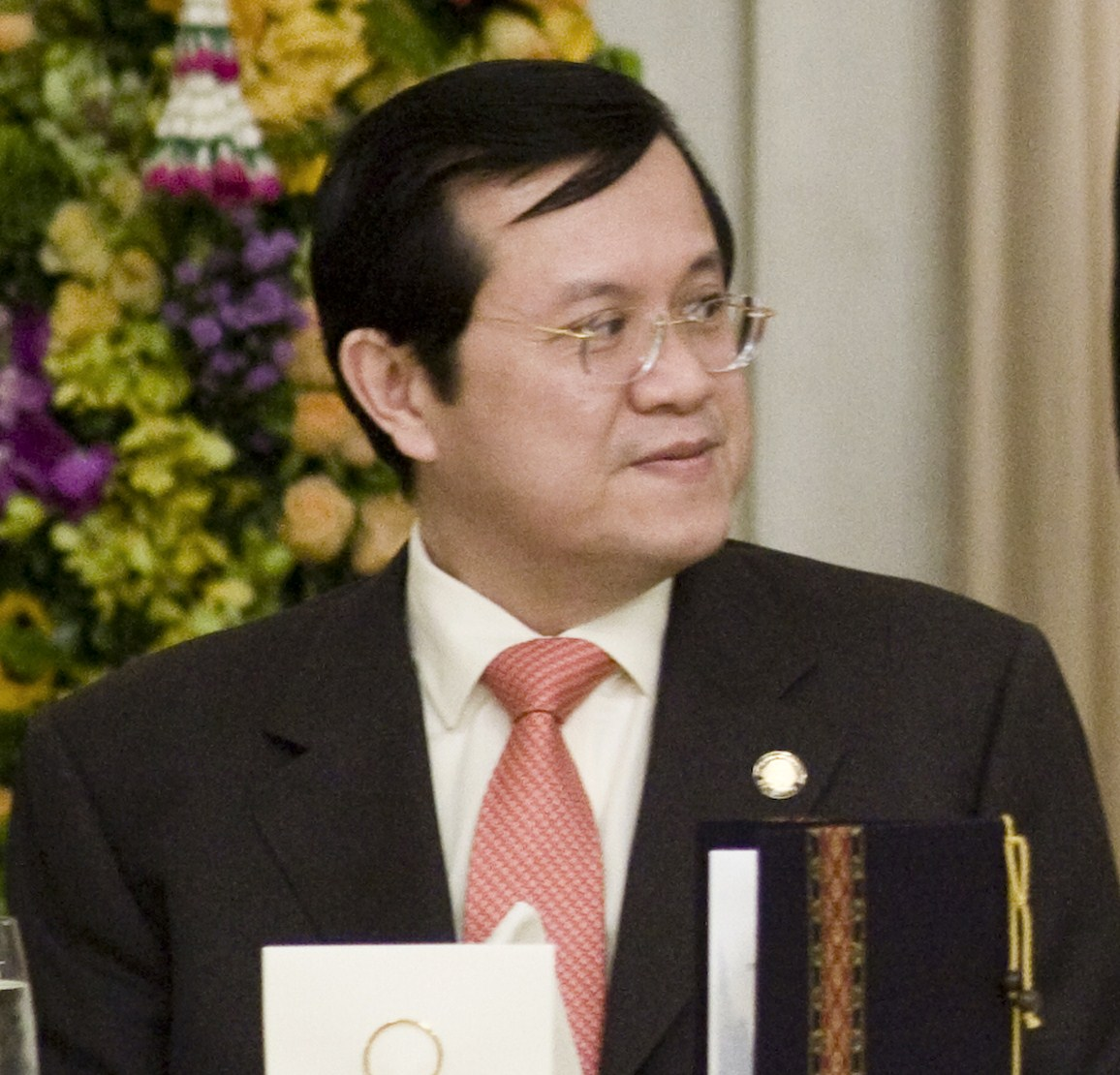 MCA President and Transport Minister Dato' Seri Ong Tee Keat in Bangkok.